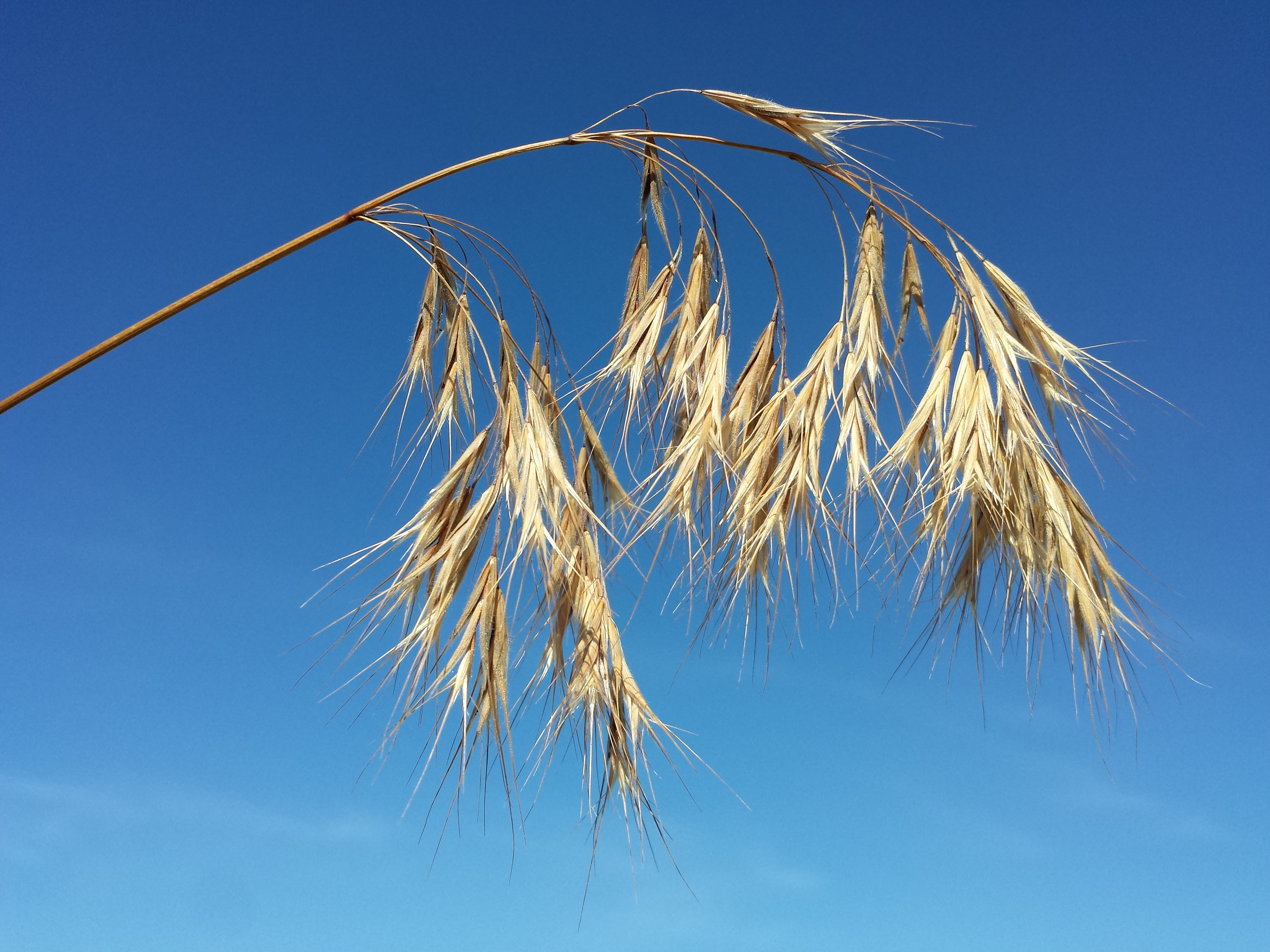 Panicle Taxonym: Bromus tectorum ss Fischer et al. EfÖLS 2008 ISBN 978-3-85474-187-9 Location: Jedlersdorf rail station, Vienna-Floridsdorf - ca. 160 m a.s.l. Habitat: ruderal area